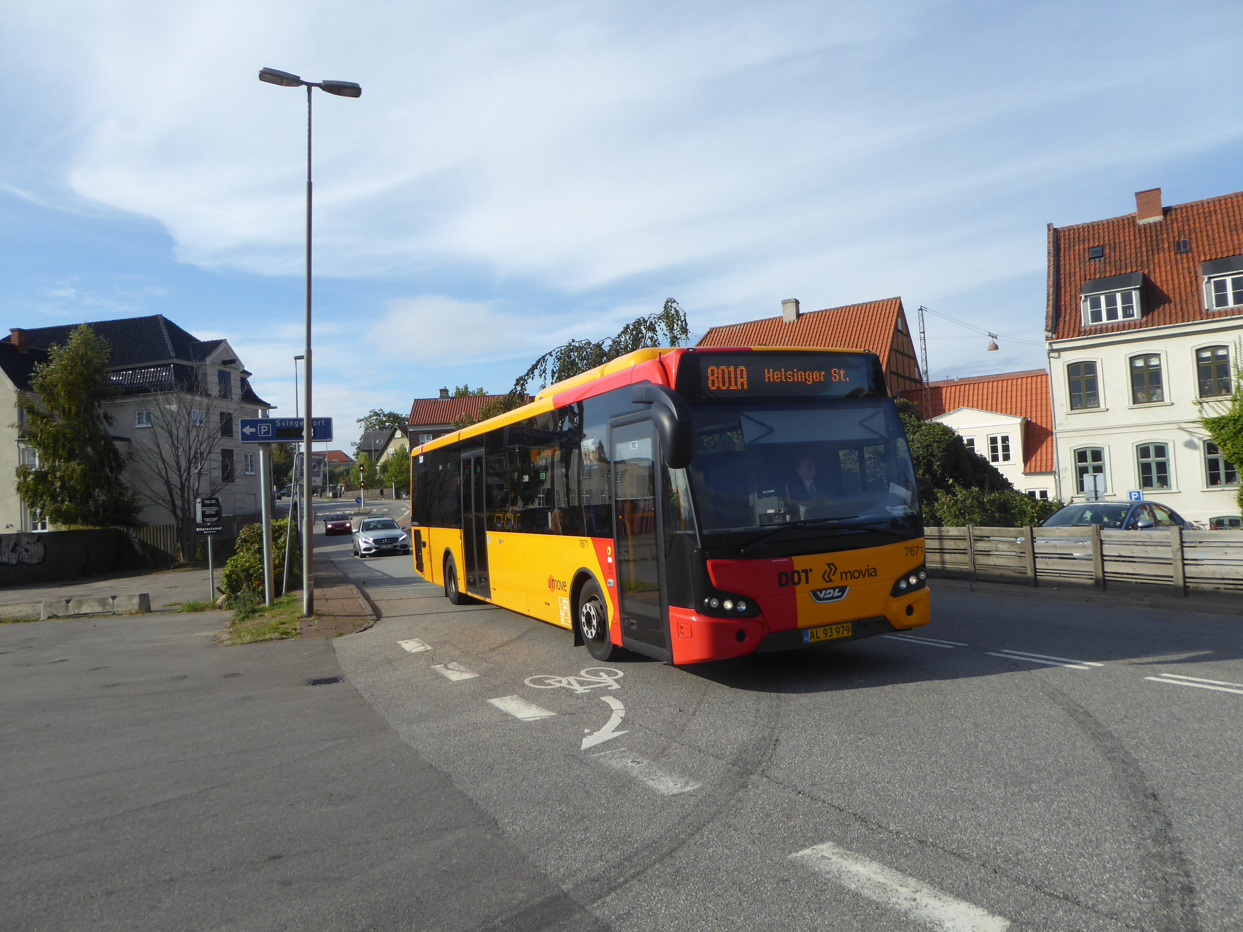 Movia bus line 801A on Jernbanevej in Helsingør in Denmark.